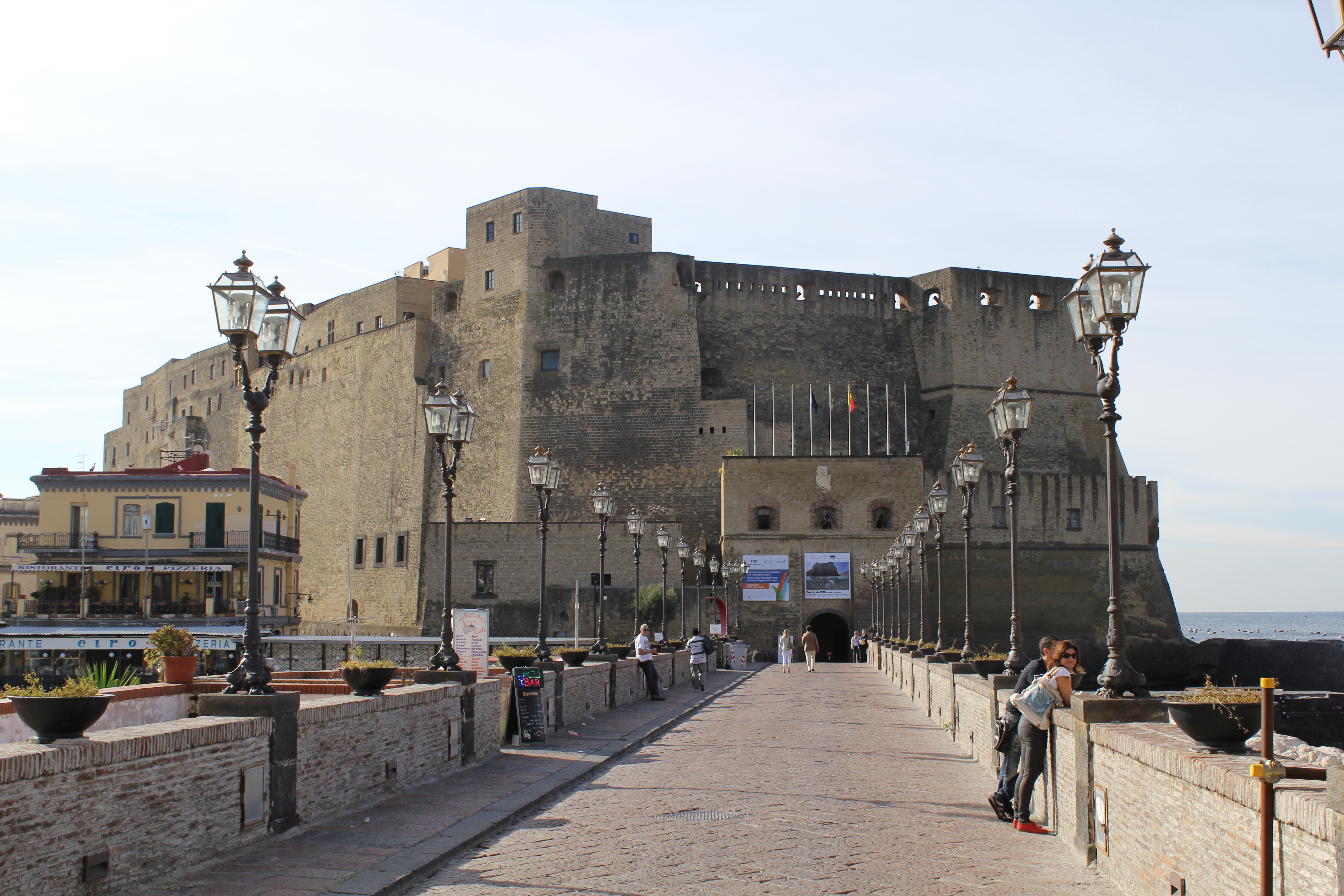 Castel dell'Ovo (1) This file was generated using equipment from Wikimedia UK, a Wikimedia local chapter.